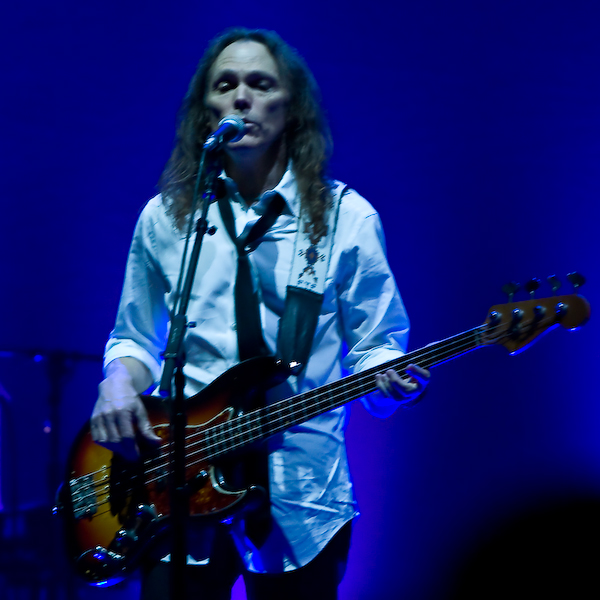 Timothy B. Schmidt, member of the Eagles